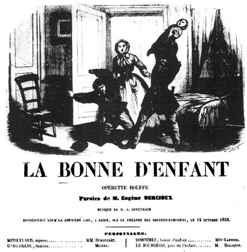 Jacques Offenbach: La Bonne d'enfant. Cover page of vocal score, published 1856